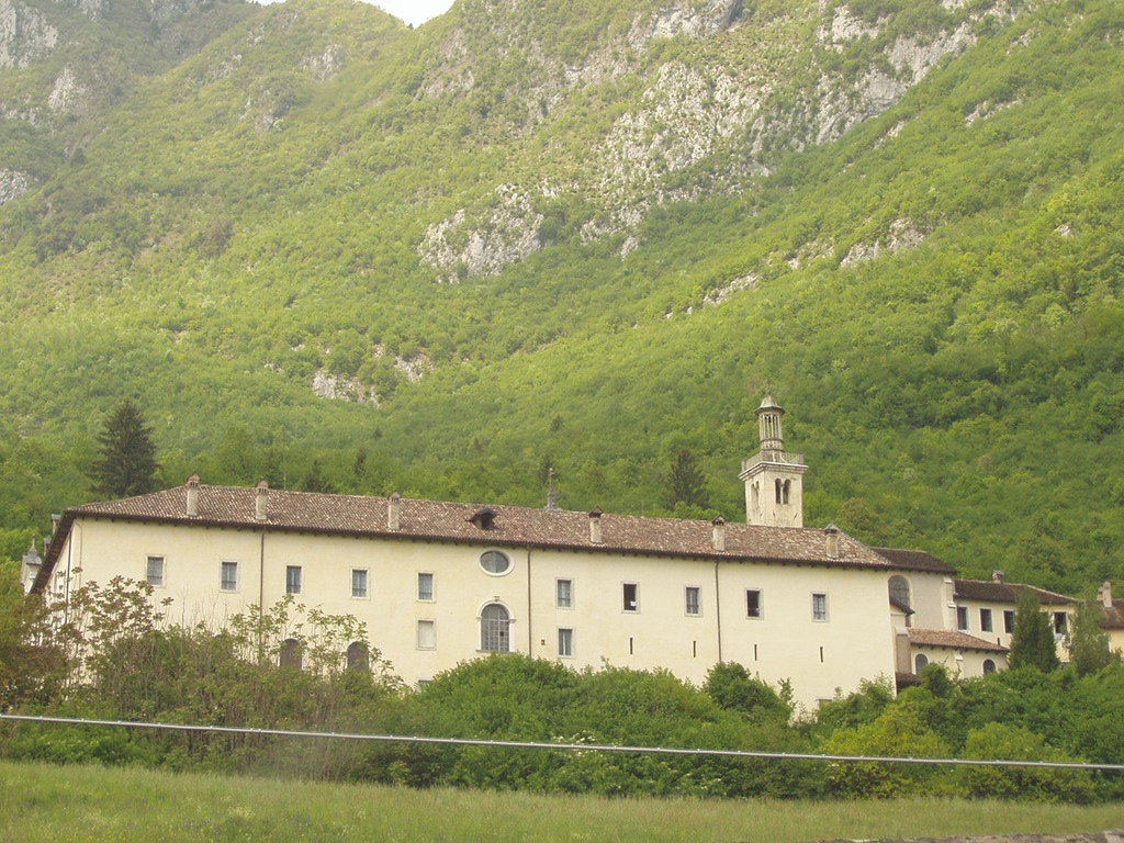 A monastery of Carthusian nuns: Charterhouse Certosa di Vedana, Sospirolo (BL), Italy.